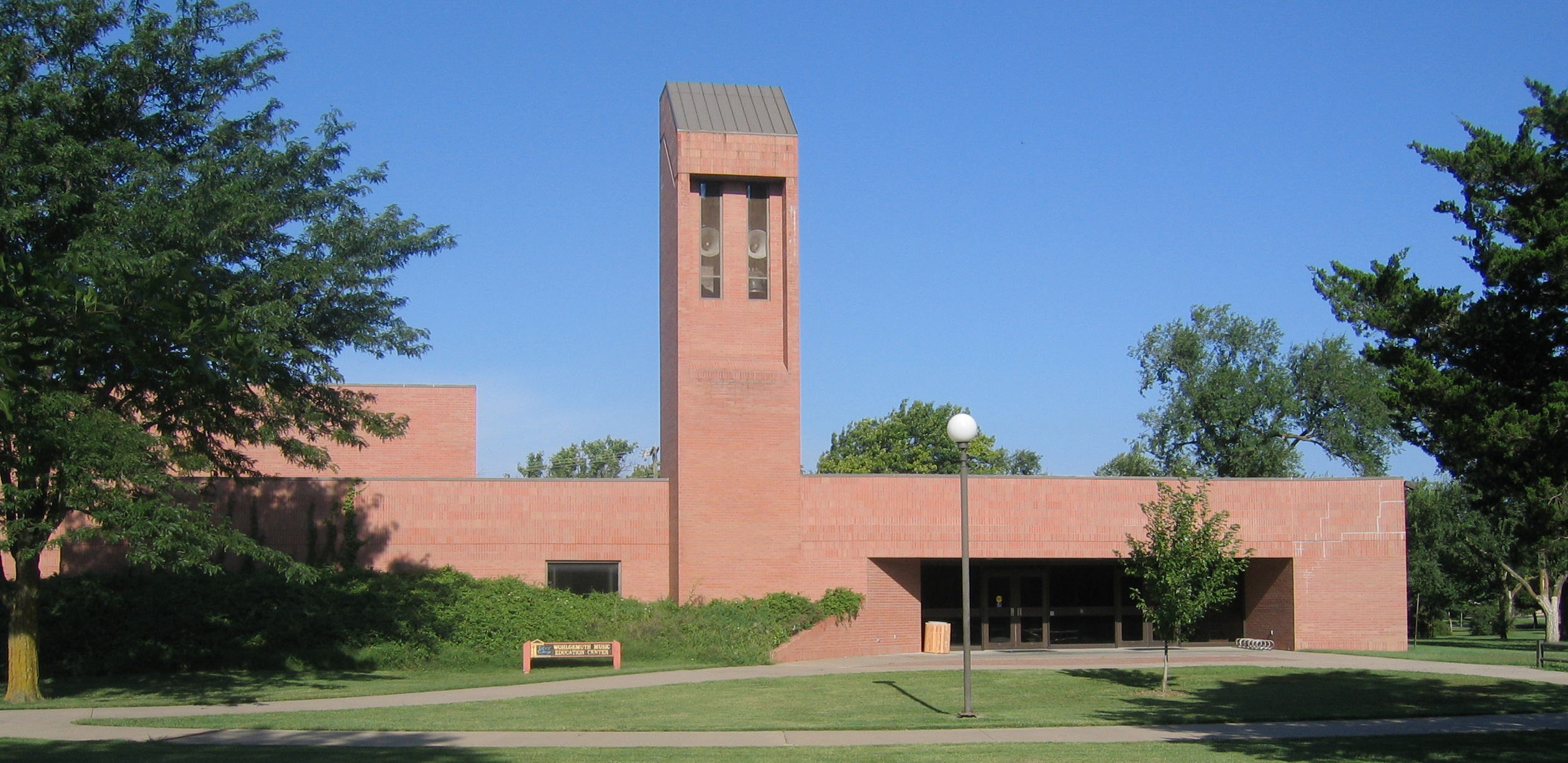 Wohlgemuth Music Education Center, Tabor College, Hillsboro, Kansas, United States